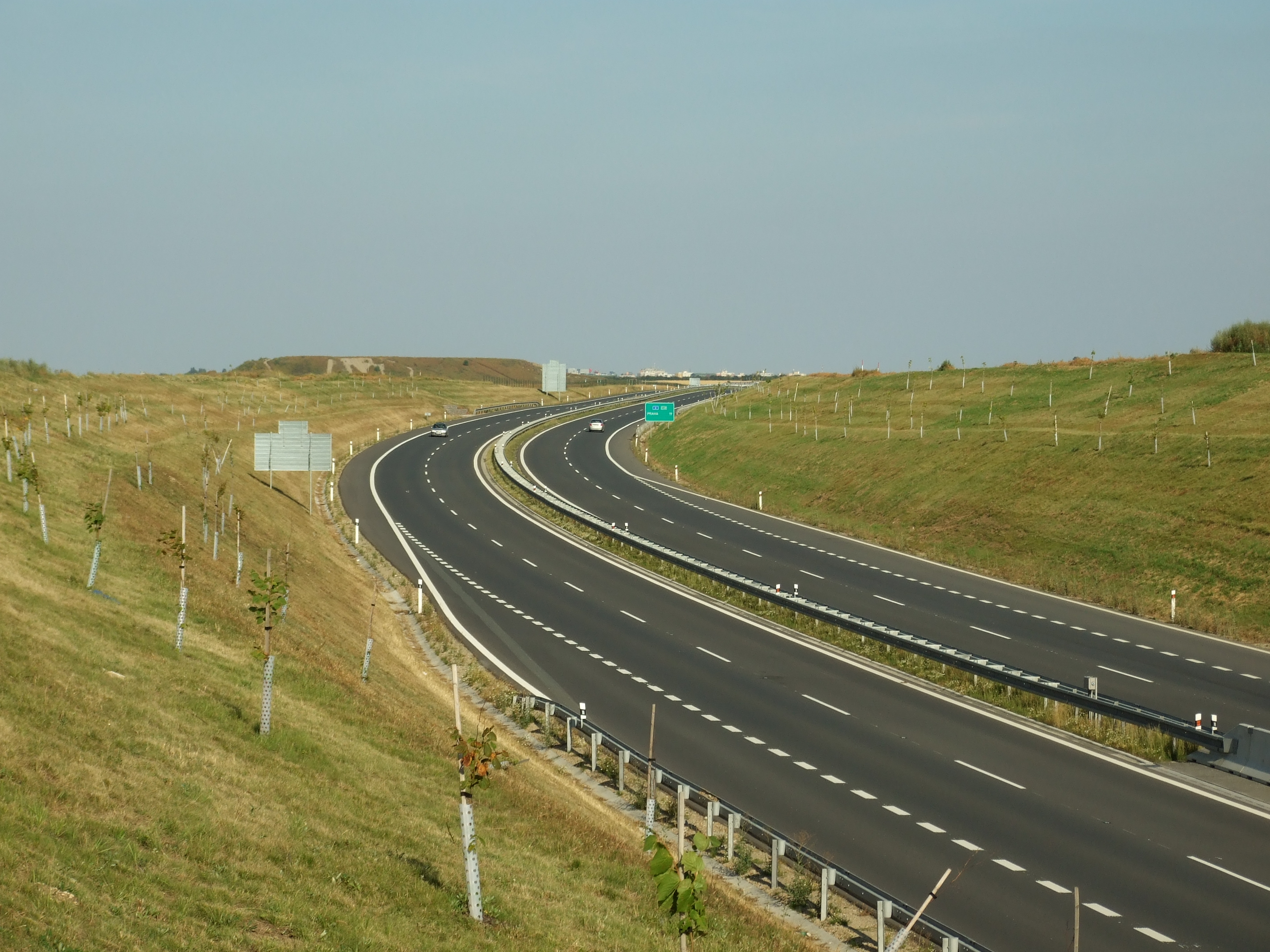 R6 expressway near Jeneč in Central Bohemian Region, the Czech Republic.